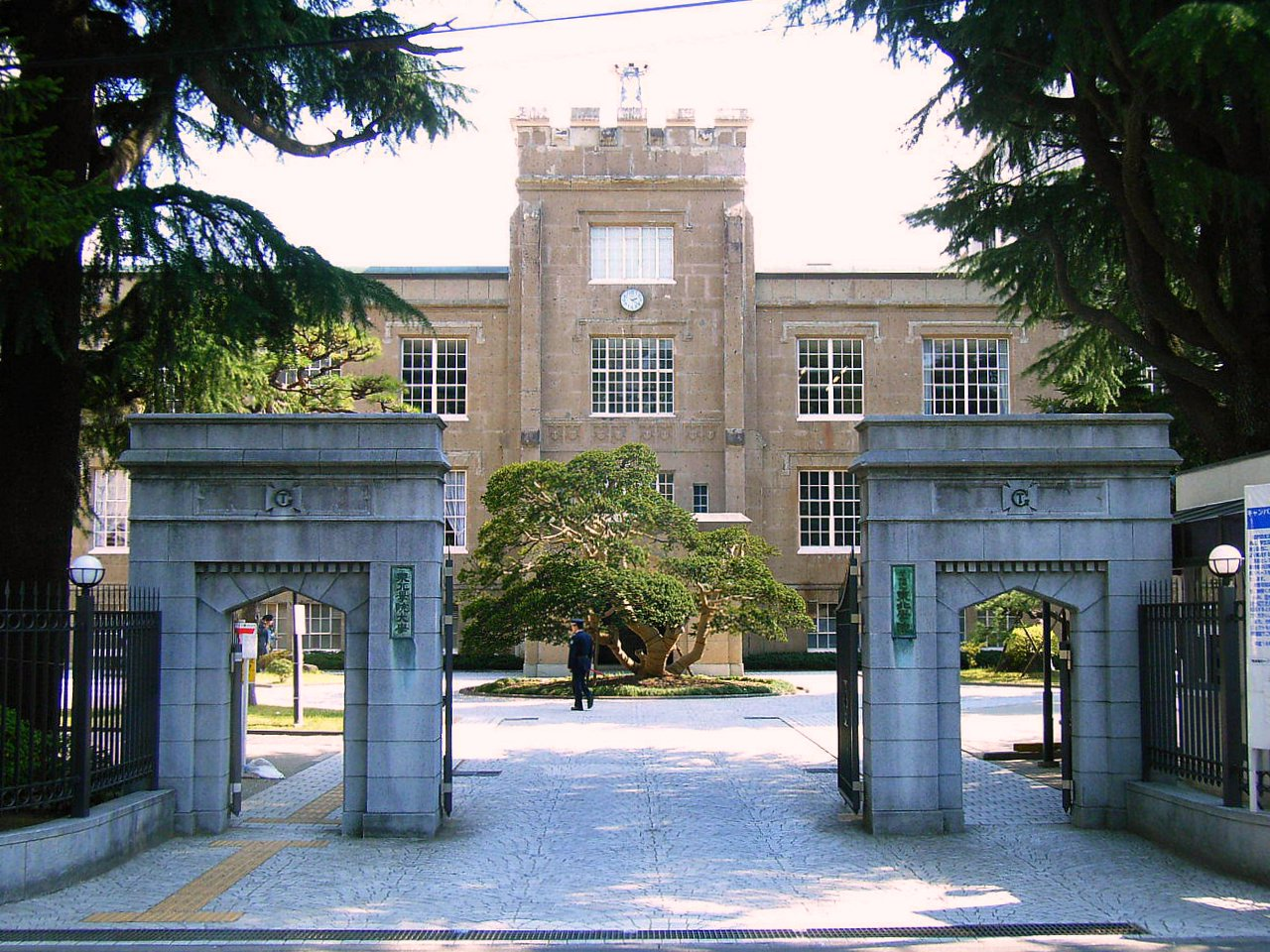 Tōhokugakuin University's Main Gate and Main Ofiice Building.